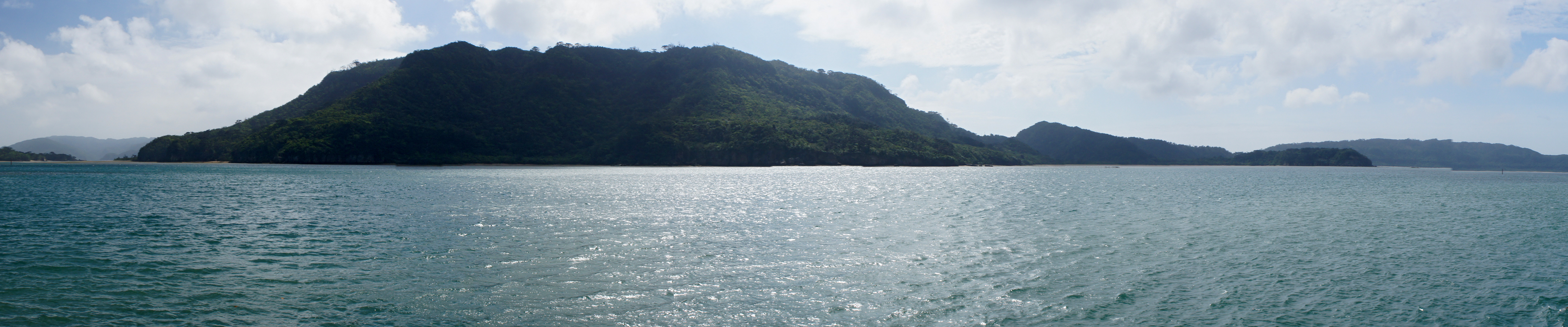 Shirahama Port in Iriomote Island, Taketomi Town, Okinawa prefecture, Japan.